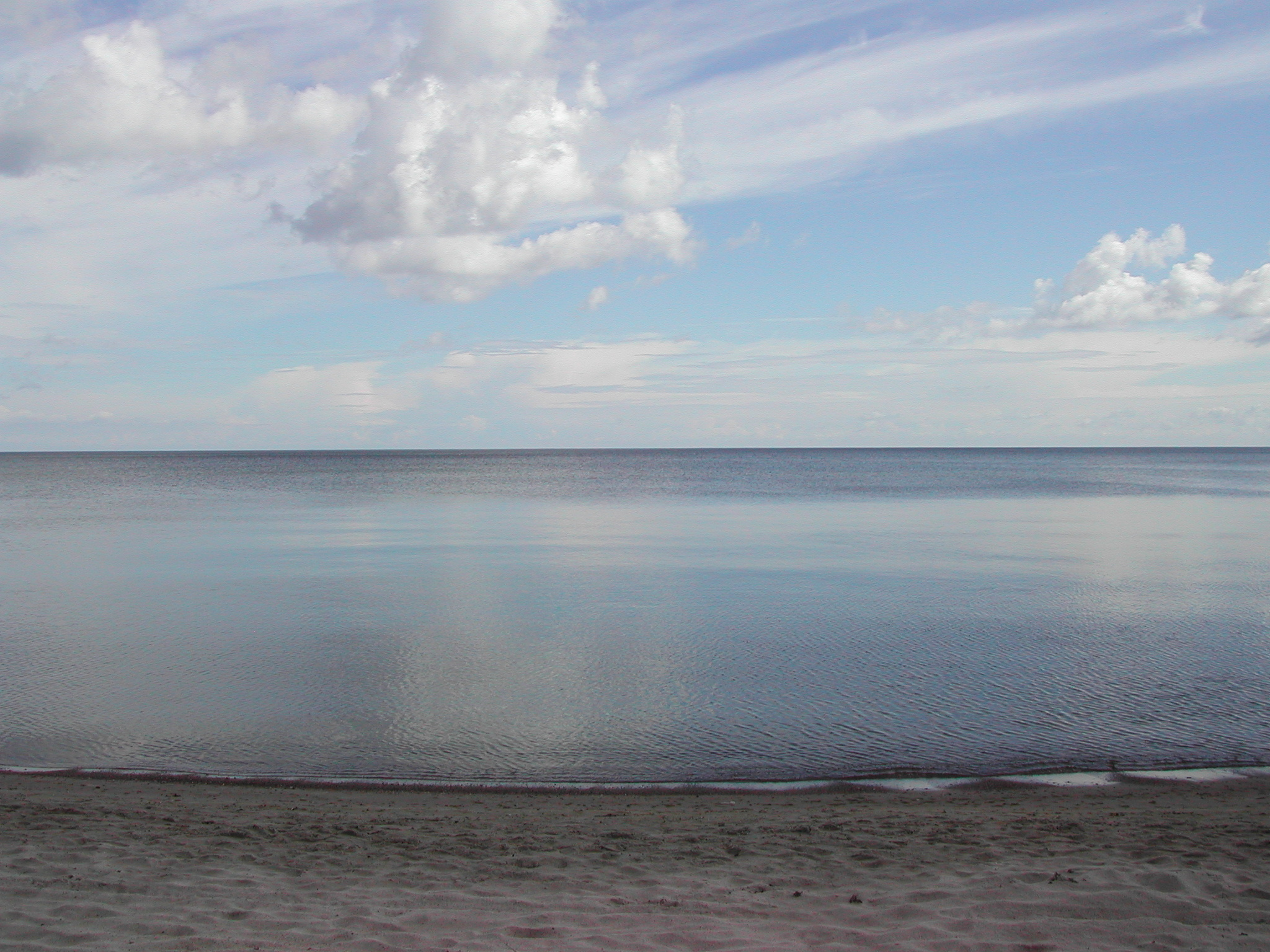 Gulf of Riga, between Plienciems and Apšuciems, Latvia